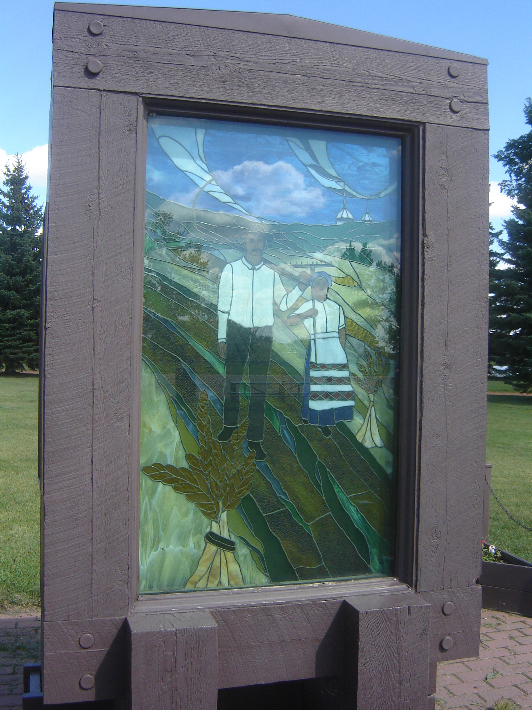 Stained Glass at Vegreville, Alberta